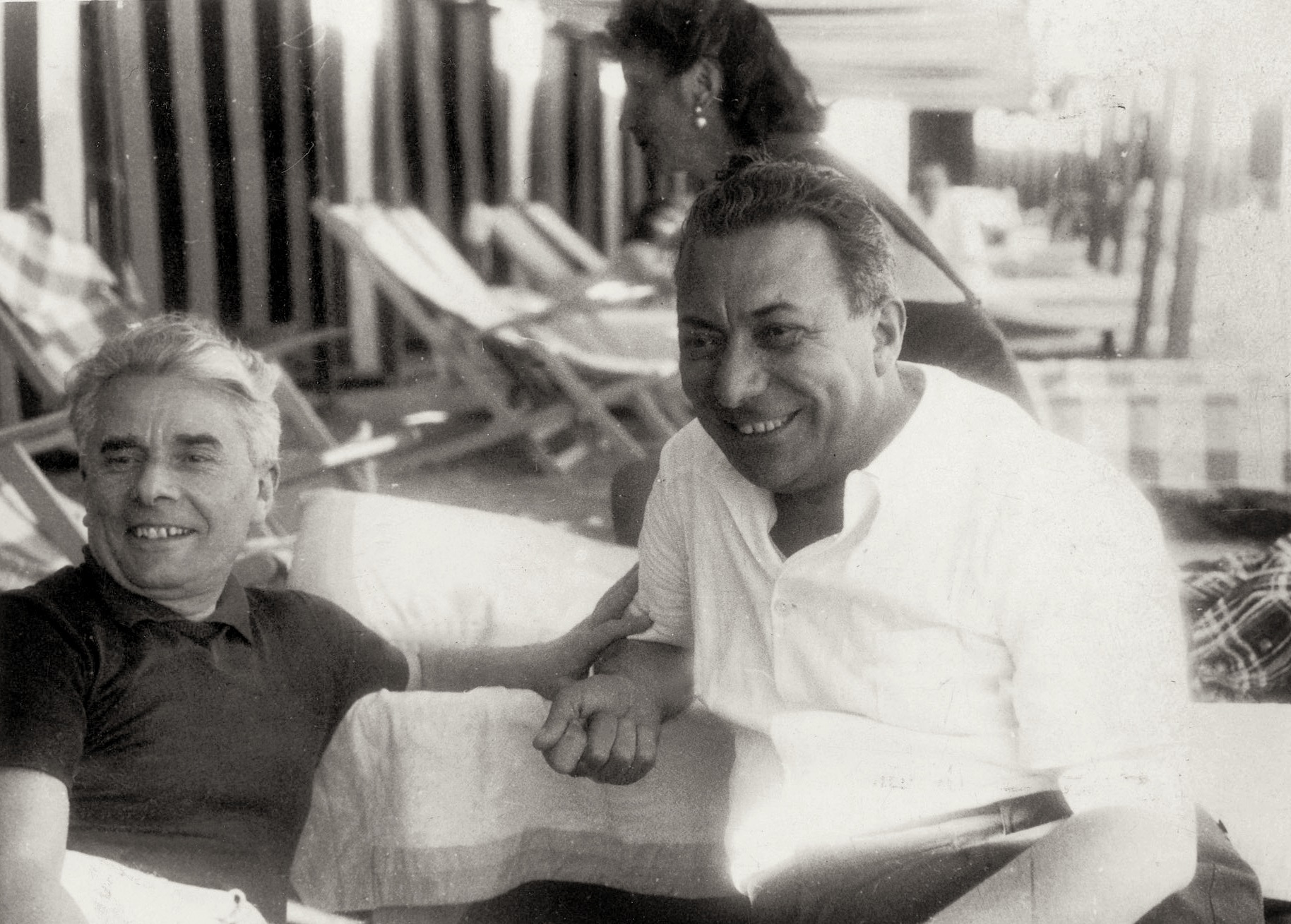 Italian publisher Arnoldo Mondadori with author Massimo Bontempelli.